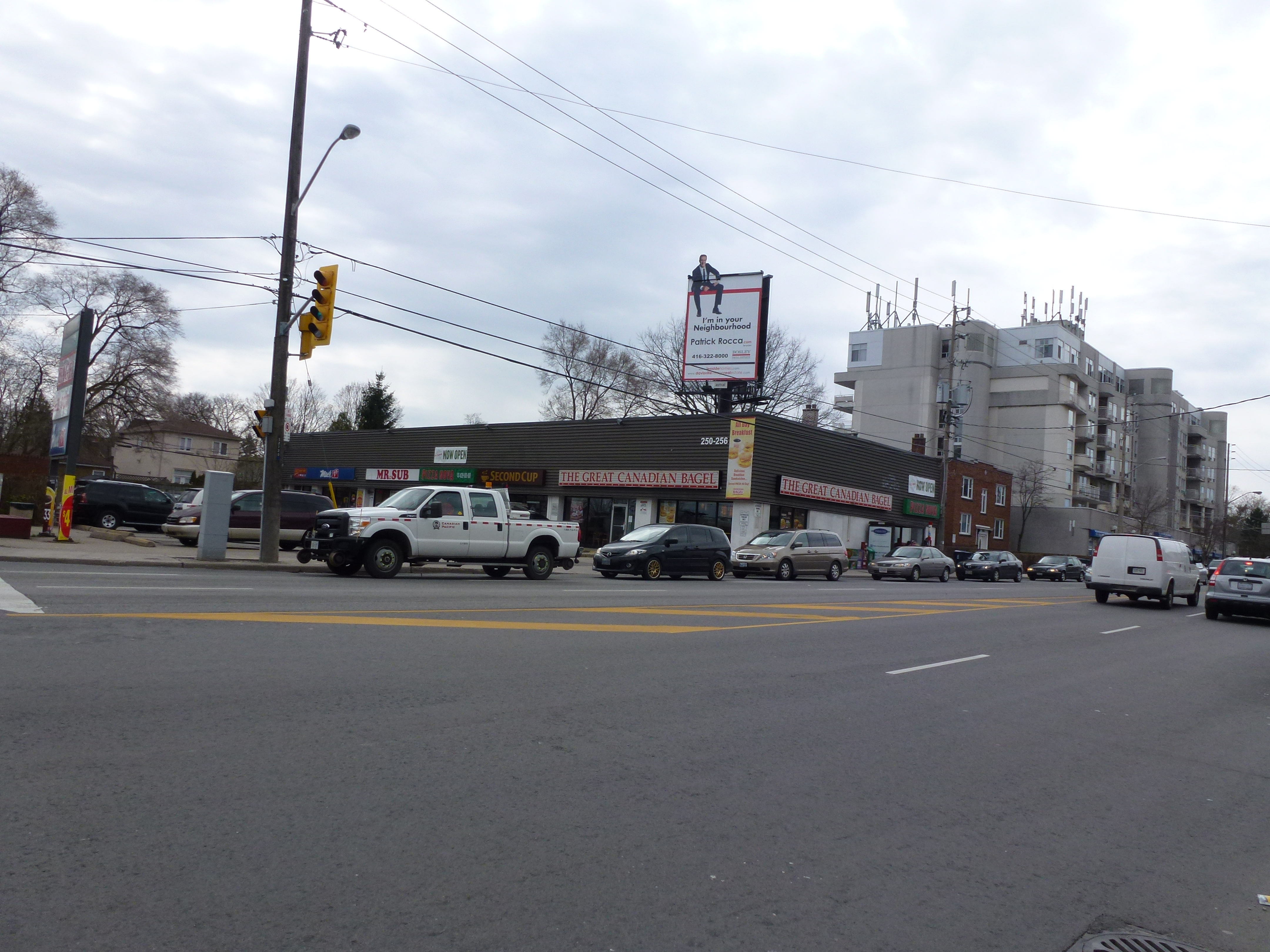 Eglinton Avenue and Laird Drive, SW corner, in Toronto. The parking lot is the site of an Eglinton Crosstown LRT station. On April 9, 2013, the day the first tunnel boring machine started to bore the Eglinton Crosstown, I bought a TTC day pass and got off to take "before" pictures of the site of every future underground station between Mount Dennis and Yonge Street. On April 25 I took photos of most of the stations east of Yonge. I plan to return for "after" pictures when the Crosstown opens in 2020. This photo was taken near the future site of the Laird Drive LRT Station. Original caption: “Parts of panoramas of intersections where there will be Eglinton Crosstown LRT stations, GPS embedded, taken 2013 04 25”